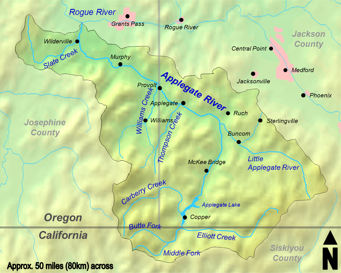 A map of the Applegate River watershed.